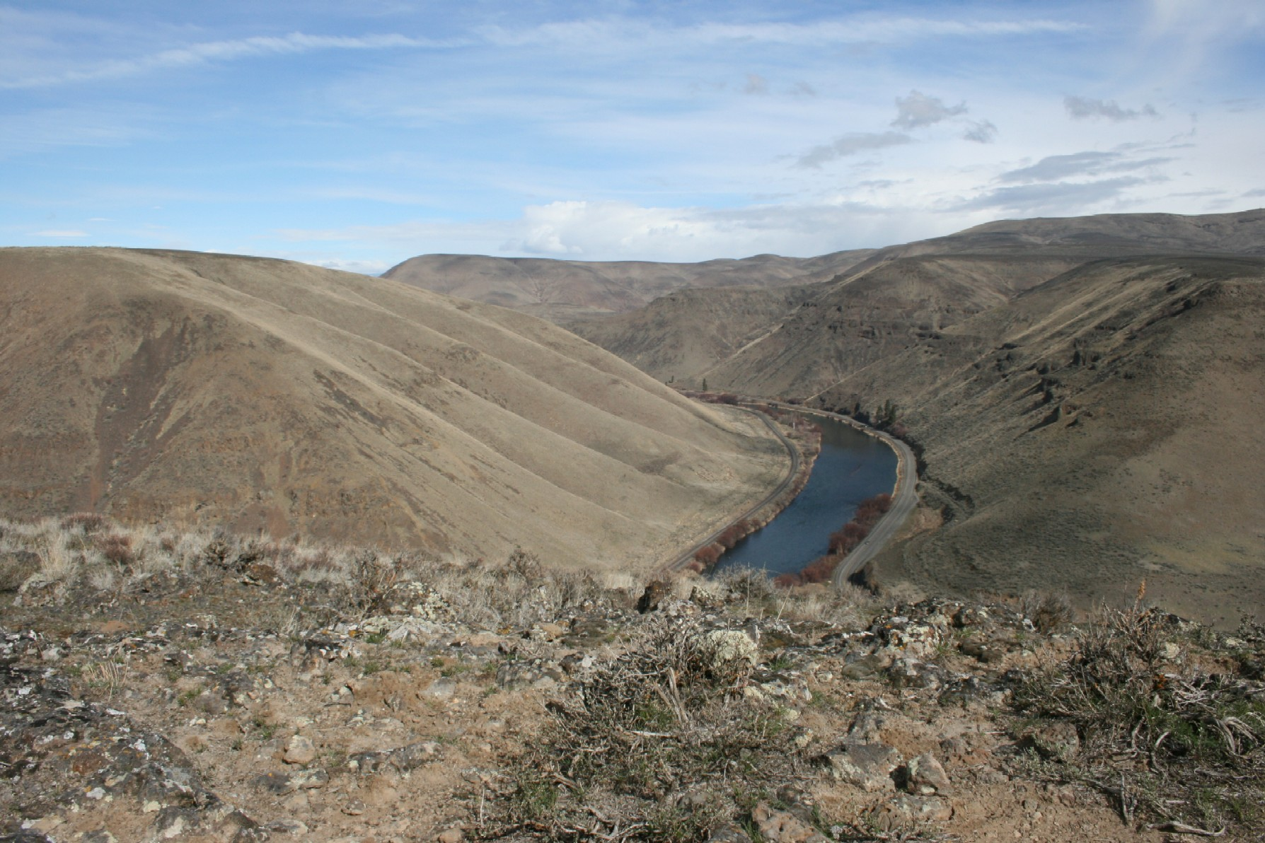 View north from Umtanum Ridge into Yakima River Canyon. For use with the article on Umtanum Ridge Water Gap in Wikipedia. Photograph was taken by the uploader.